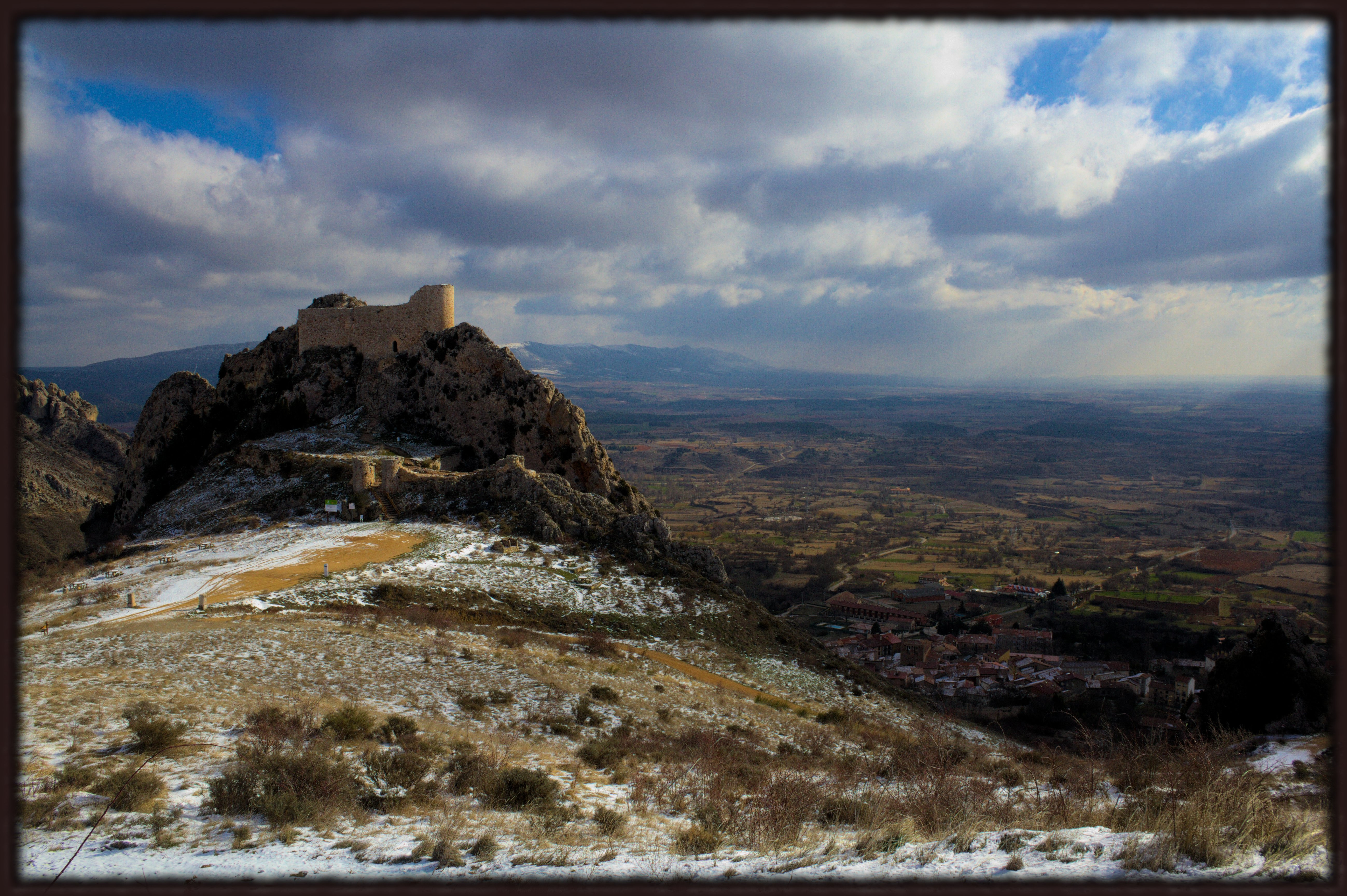 View of Rojas castle and Poza de la Sal